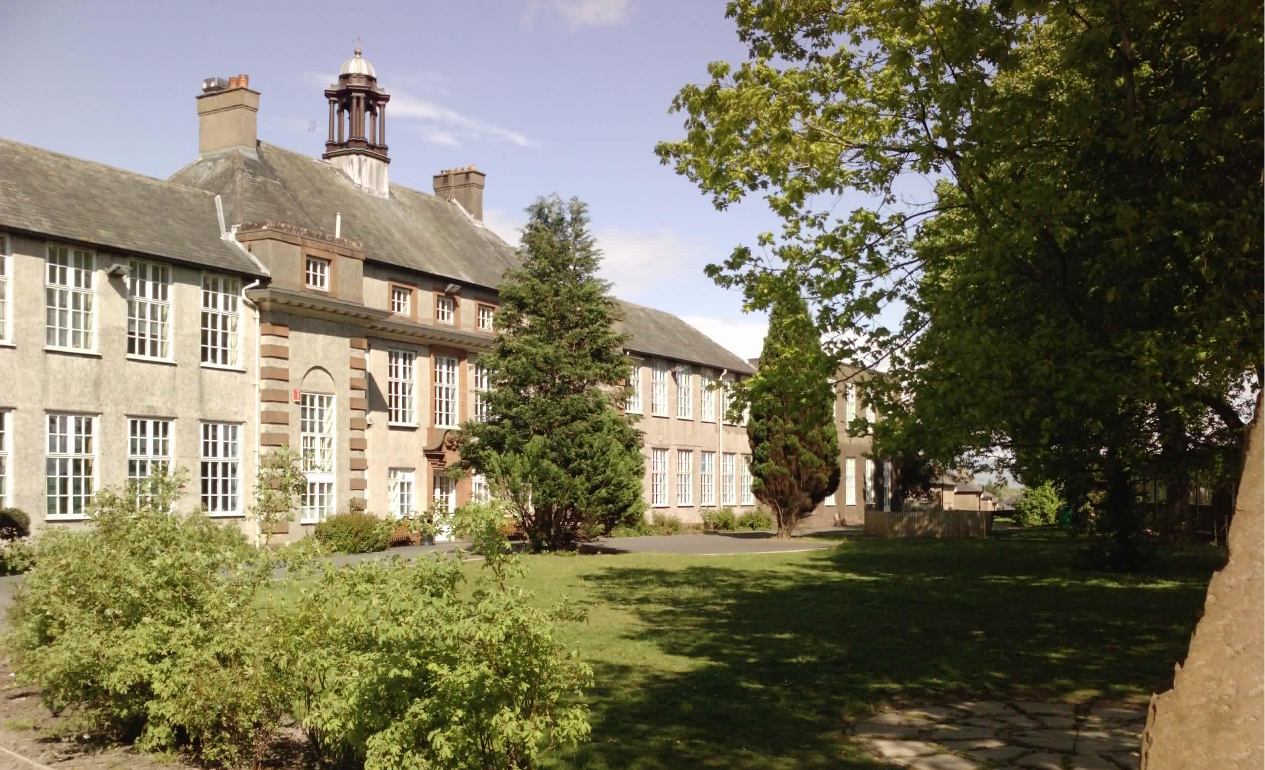 Photo of Queen Elizabeth Grammar School taken in 2010.